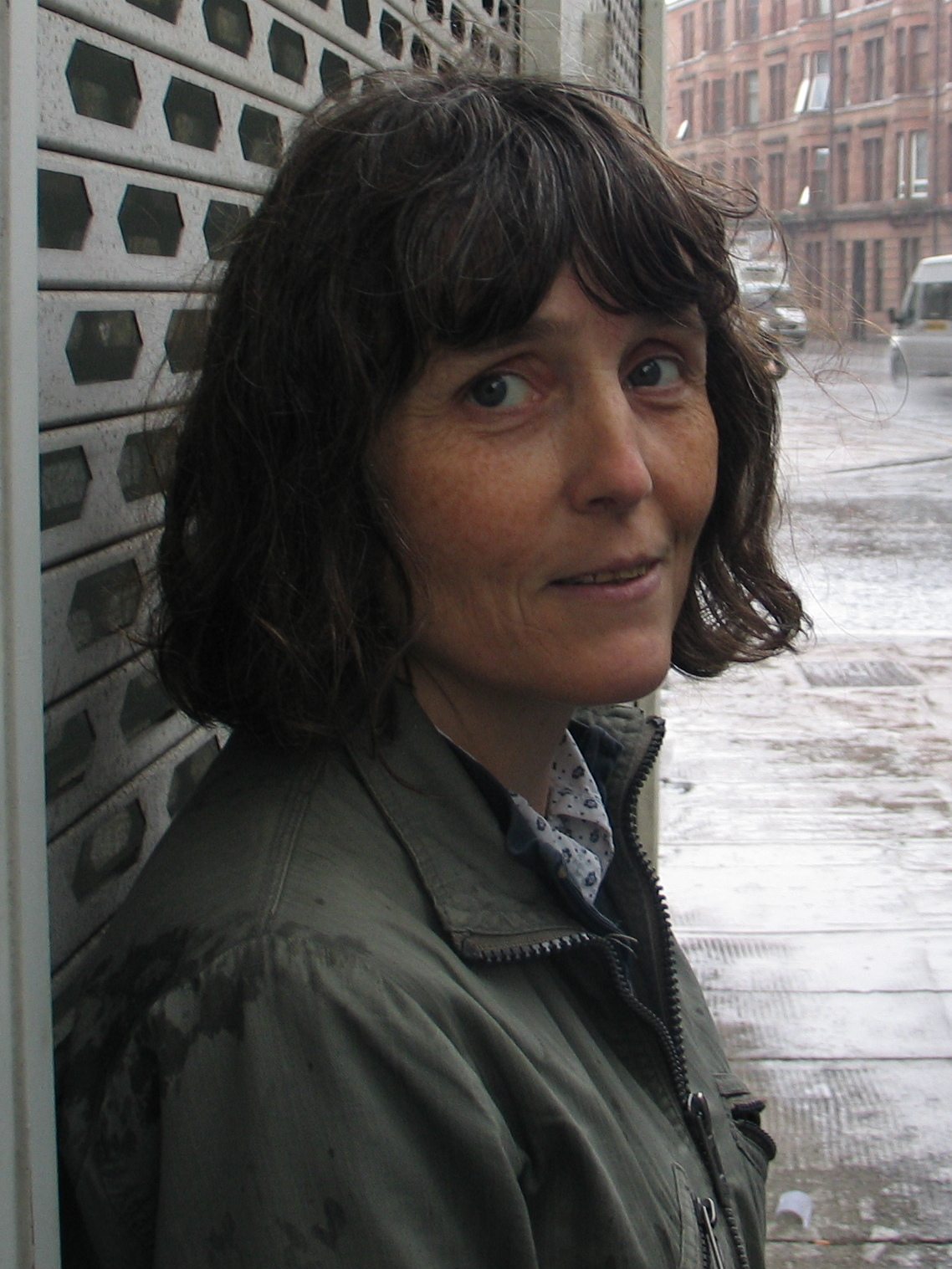 Claire Voisin in the summer Scottish rain (Glasgow 2009)